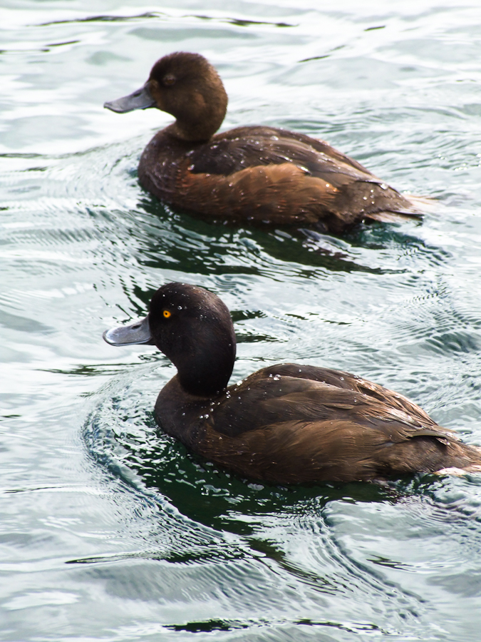 A pair of Papango (Aythya novaeseelandiae) ducks swimming in Lake Taupo